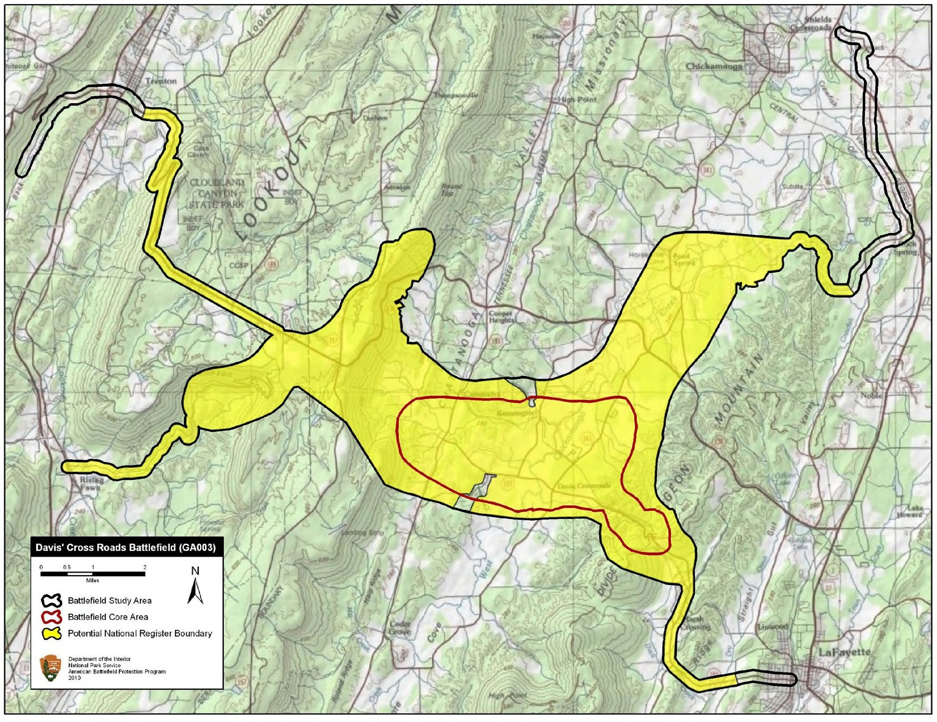 Map of battlefield core and study areas. The 1993 Study Area boundary did not accurately reflect the Union advance or Confederate defense. The new boundary reflects the historic road network and terrain features. It also includes the locations of the Union advance through Johnson's Crook and the Confederate flanking maneuver from the northeast.